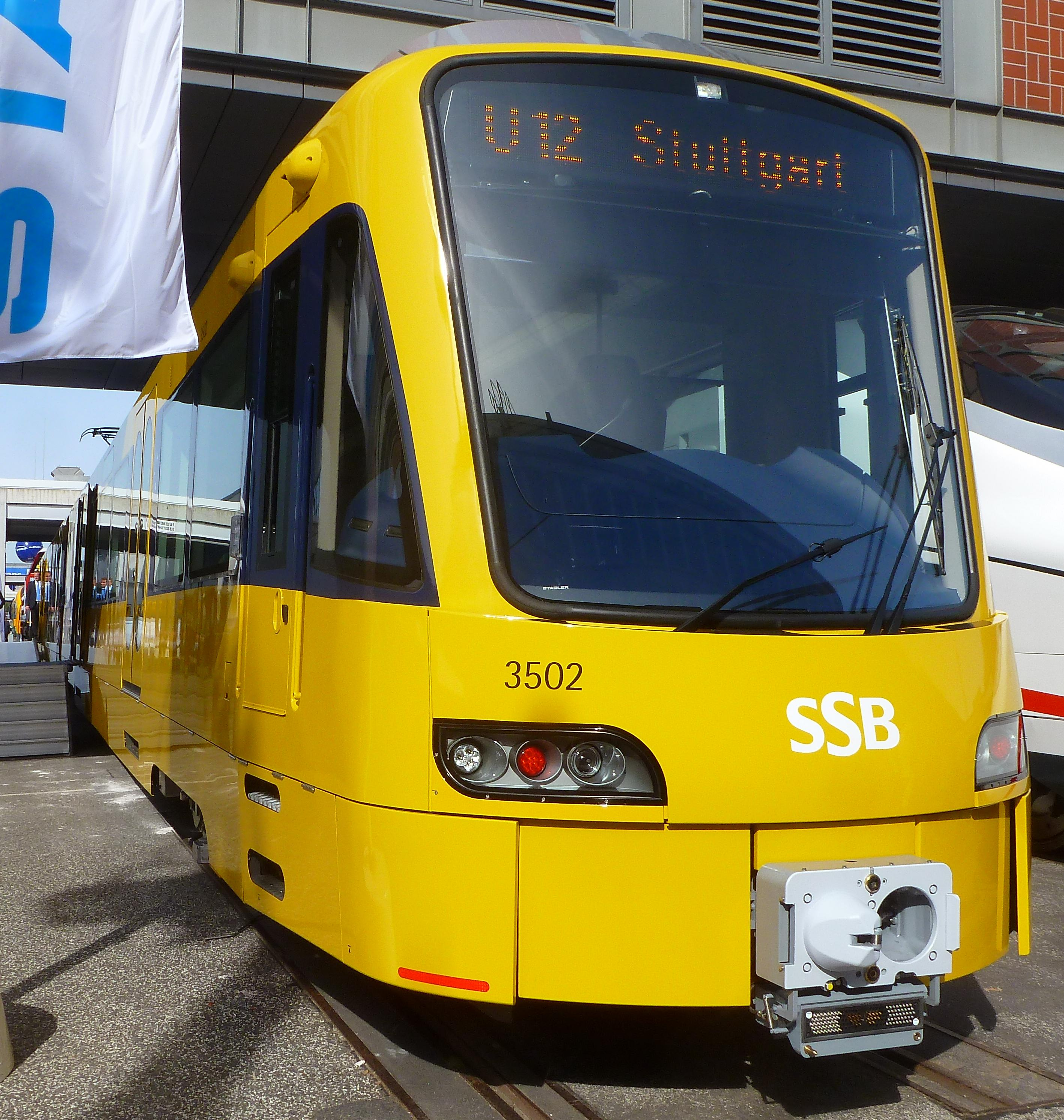 Stuttgarter Straßenbahnen DT8.12 3501/3502 (Stadler Pankow 2012) exhibited on the InnoTrans 2012 in Berlin, Germany.